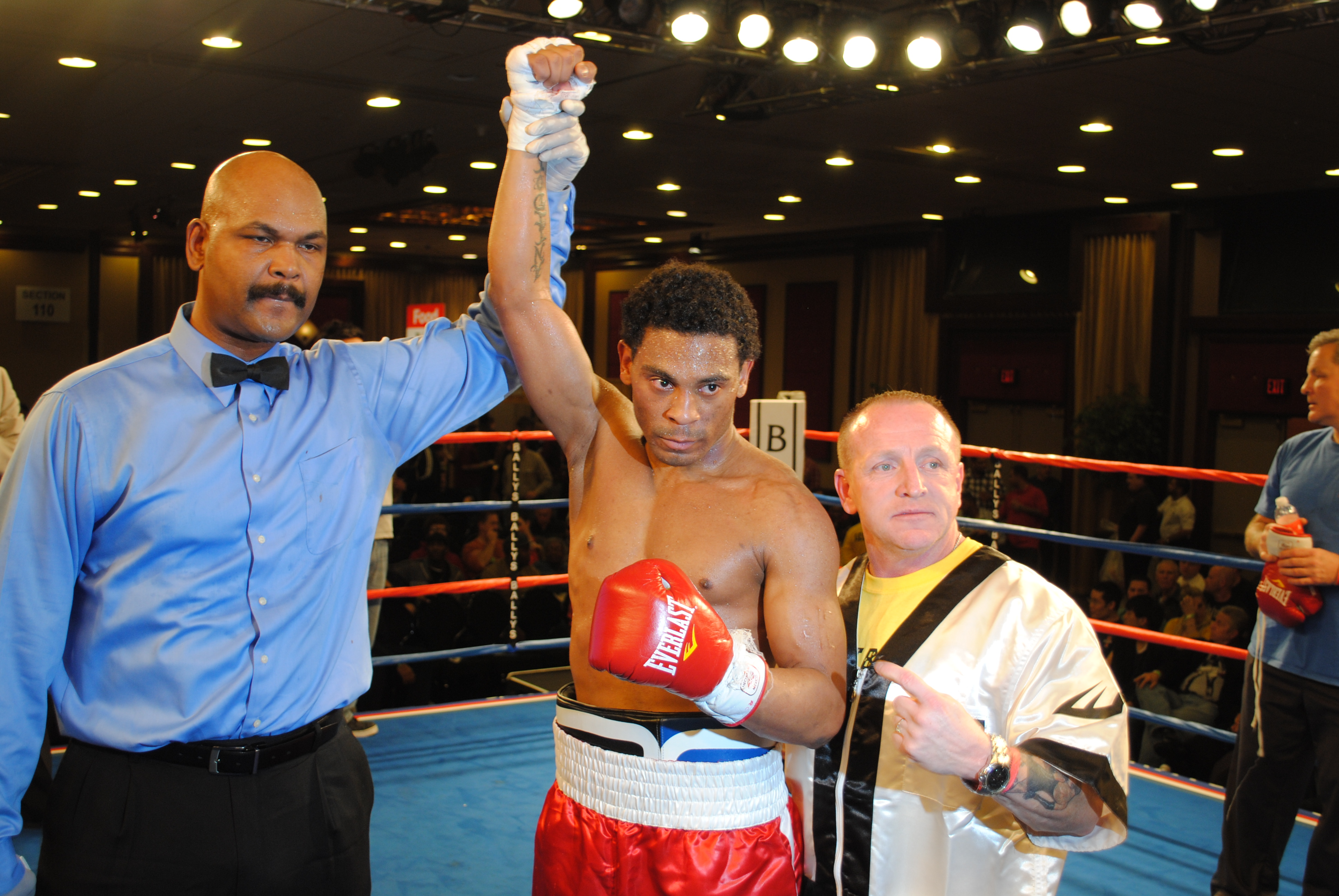 Sports writer photographer Robert Brizel captures welterweight Luis Cream winning at Bally's Atlantic City, grandson of legendary world heavyweight champion Jersey Joe Walcott, February 25, 2012